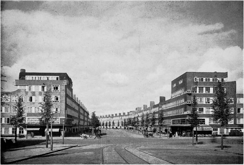 Architecture and art magazine WENDINGEN 1927-6/7, page 8. Theme "Plan West Amsterdam", Hoofdweg/Postjesweg, architecture by Piet Kramer (1881-1961). Catawiki